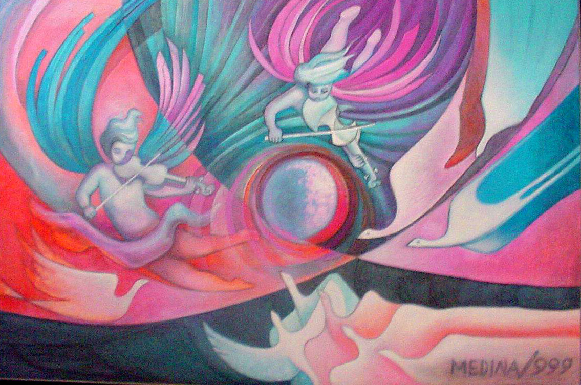 ¨ Rapsodia de Amor en Rosa y Azul. Acrilico sobre manta. 120x180cm.